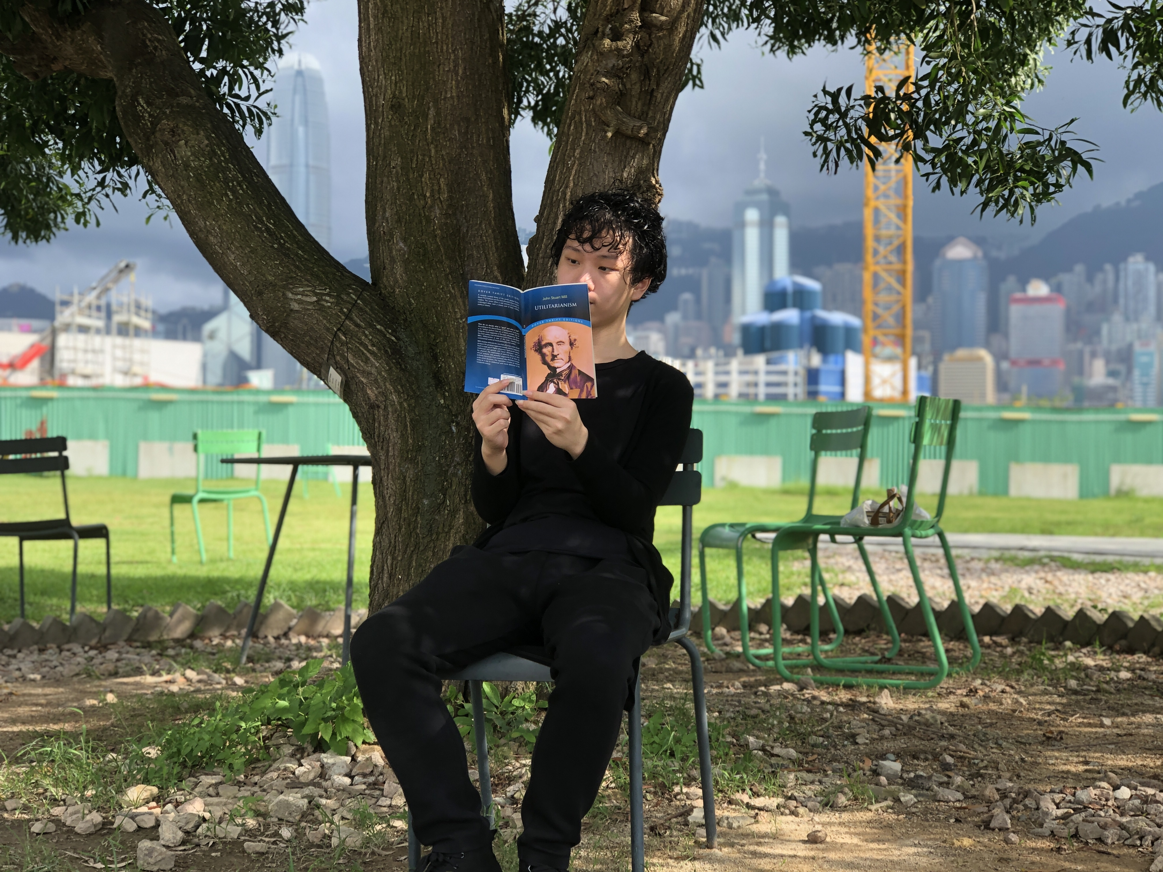 On June 28, 2019, Honcques Laus read John Stuart Mill's Utilitarianism on the grassland of Victoria Harbor in Hong Kong.